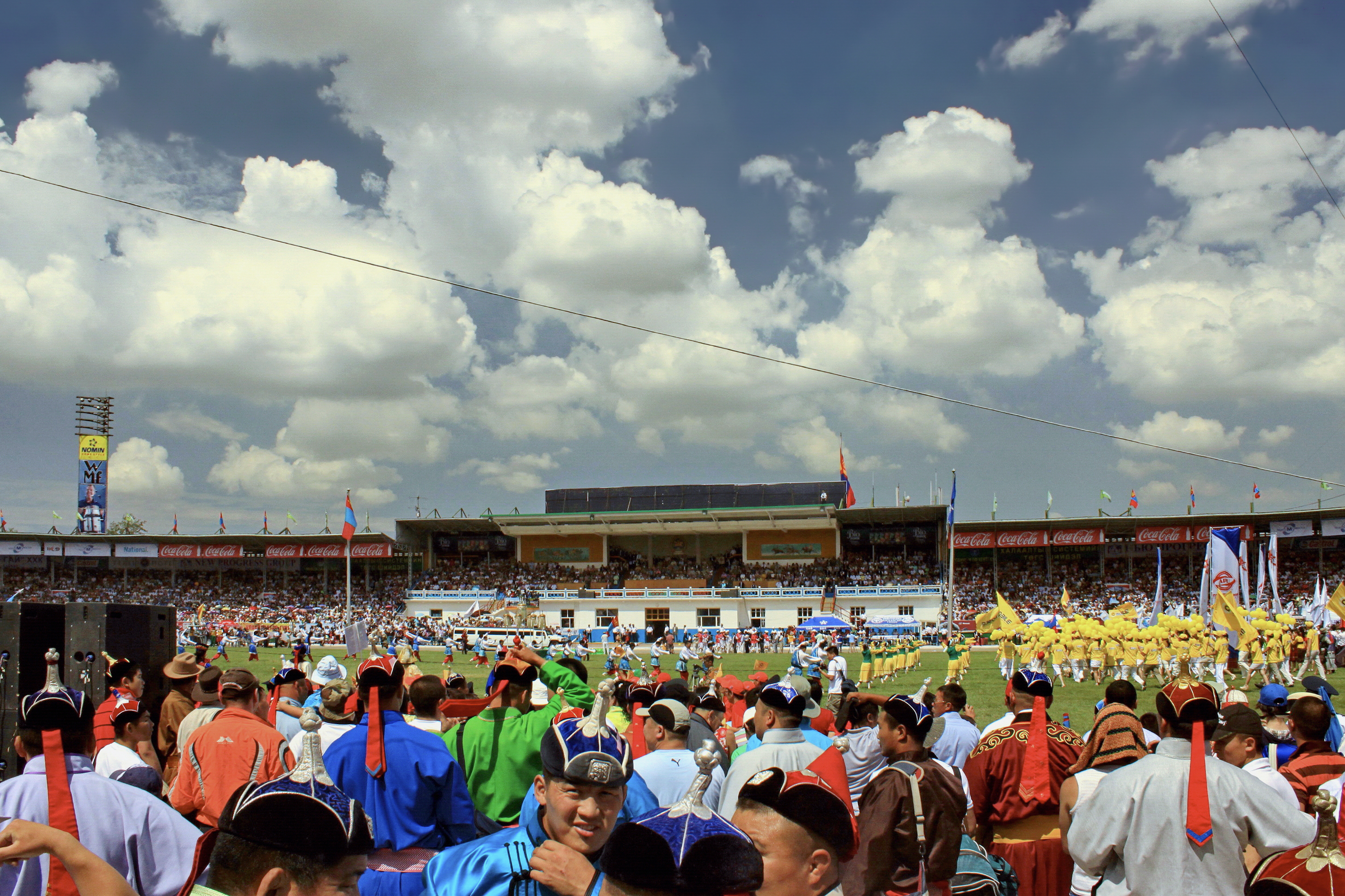 Naadam festival at the national stadium. Ulan Bator, Mongolia.